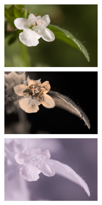 Comparison of a Melissa officinalis (Lemon Balm) flower photographed in visible light (top), ultraviolet (middle), and infrared (bottom). In visible light the flower is a uniform white colour. In ultraviolet light a darker area around the mouth of the flower is visible. This may act as a nectar guide, aiding bees (which can see ultraviolet light) to the area of the flower where the nectar and pollen are located. In infrared light the flower appears a single tone. The leaf of the plant appears brighter in infrared, having around the same brightness as the flower.